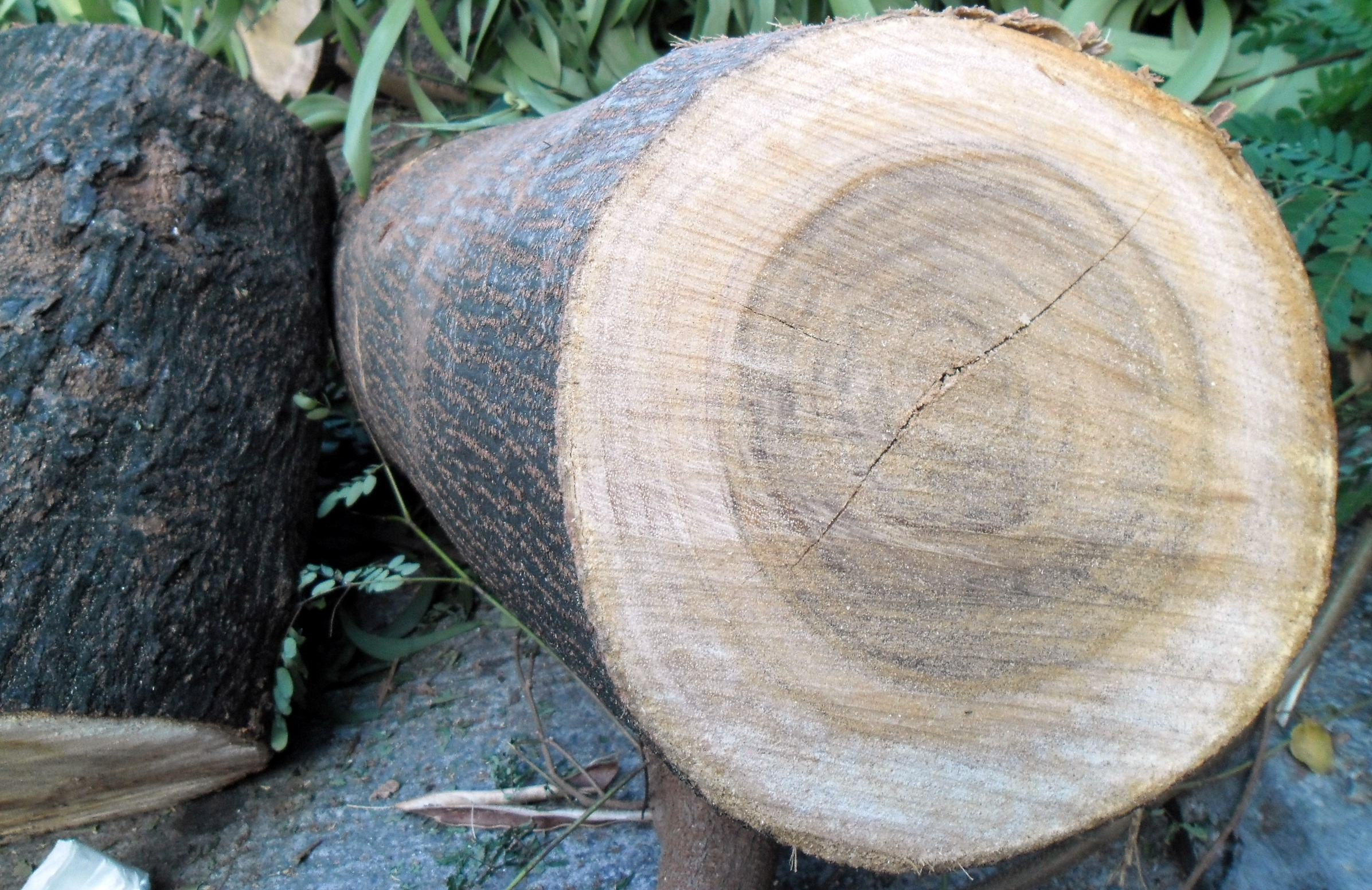 The highly invasive, pesty tree-Leucaena leucocephala is an alien, invasive tree in Hong Kong, with such trees often chopped, to reduce the invasive population. Earth100 just happened to walk pass a log of Leucaena leucocephala's wood, showing the bark and tree rings clearly.